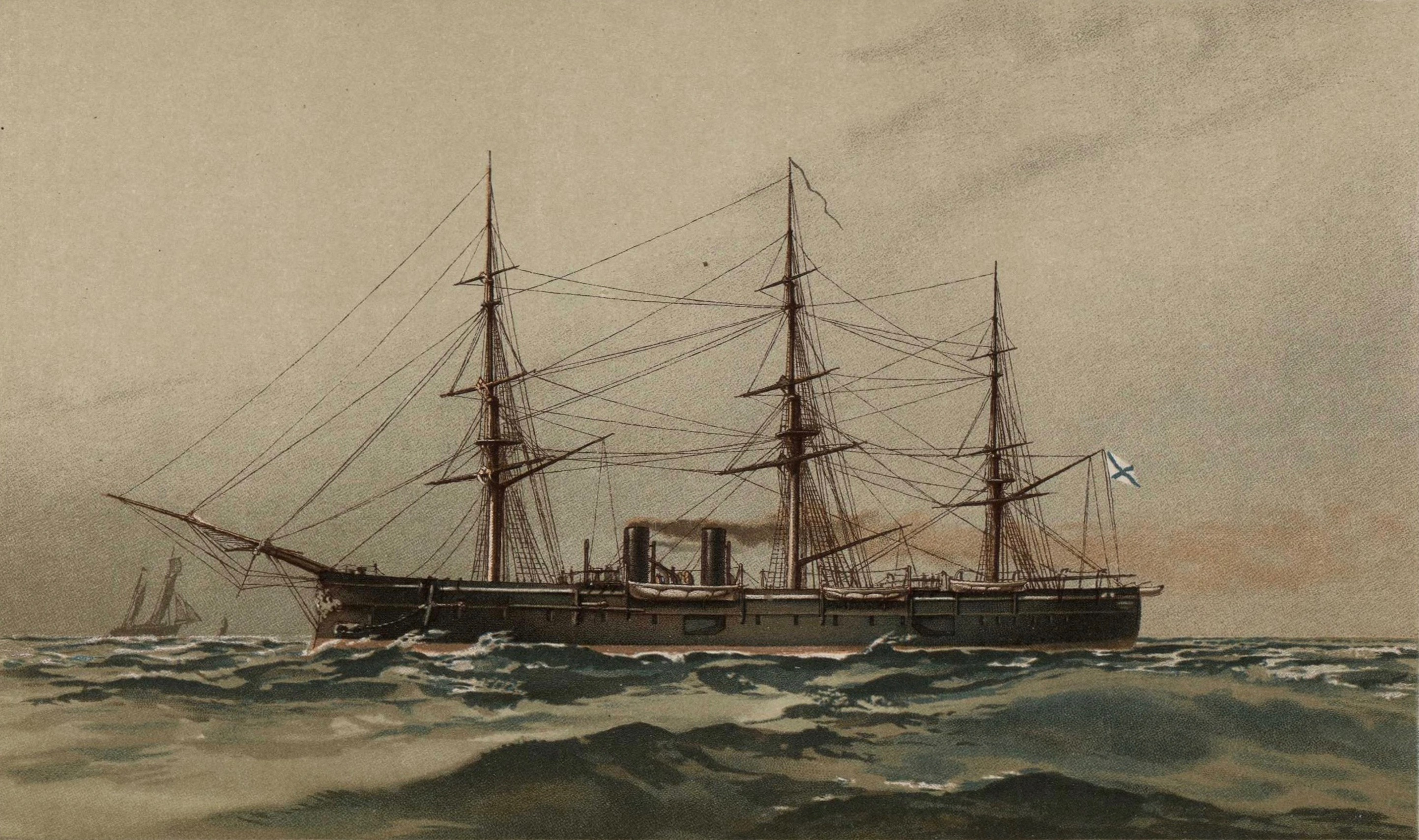 Kniaz Pozharsky (armored cruiser)